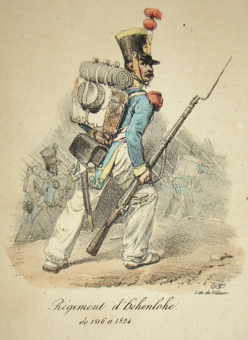 Uniform of the Hohenlohe Regiment, ca. 1820